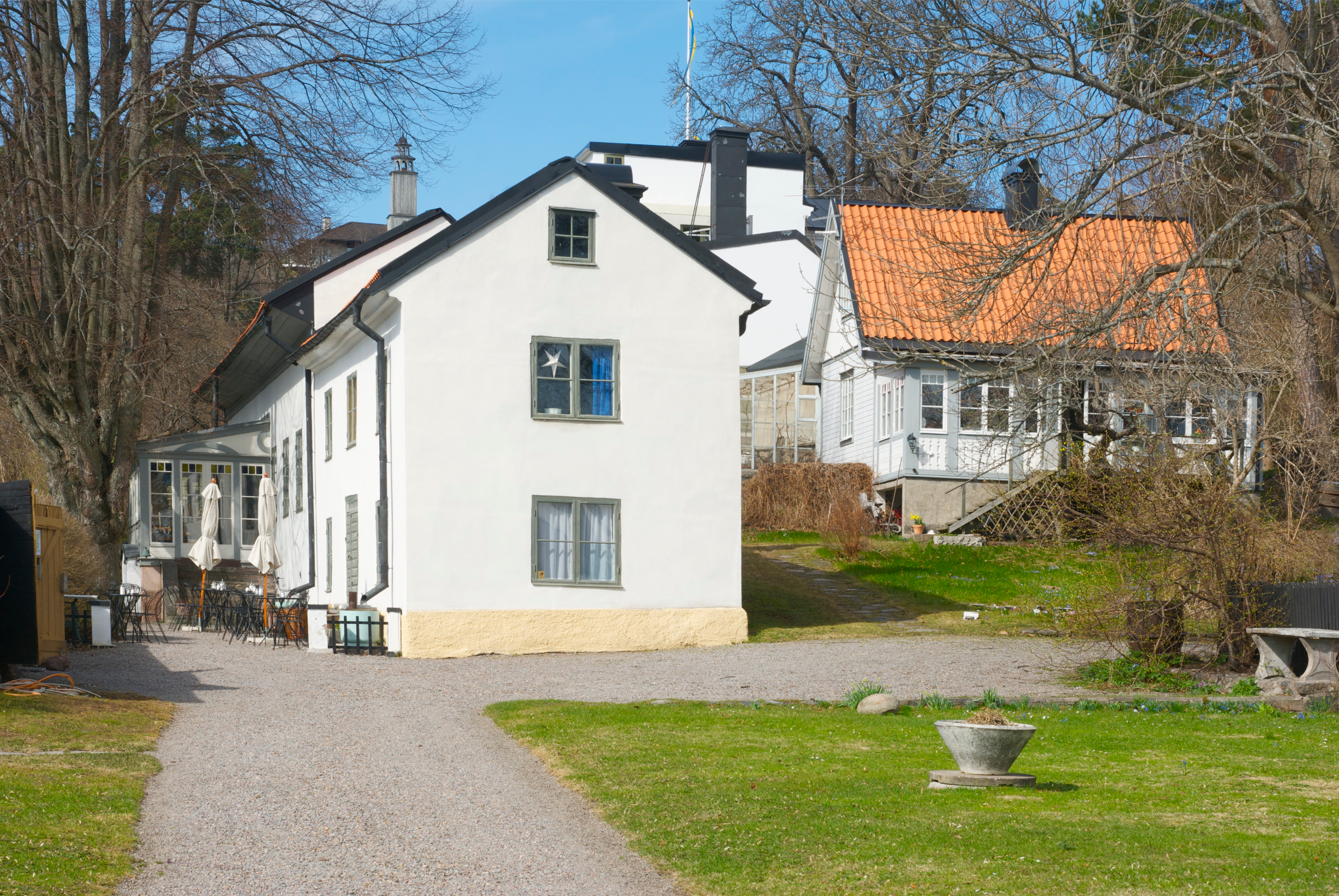 Duvnäs övre gård. Former home to Swedish artist Olle Nyman.